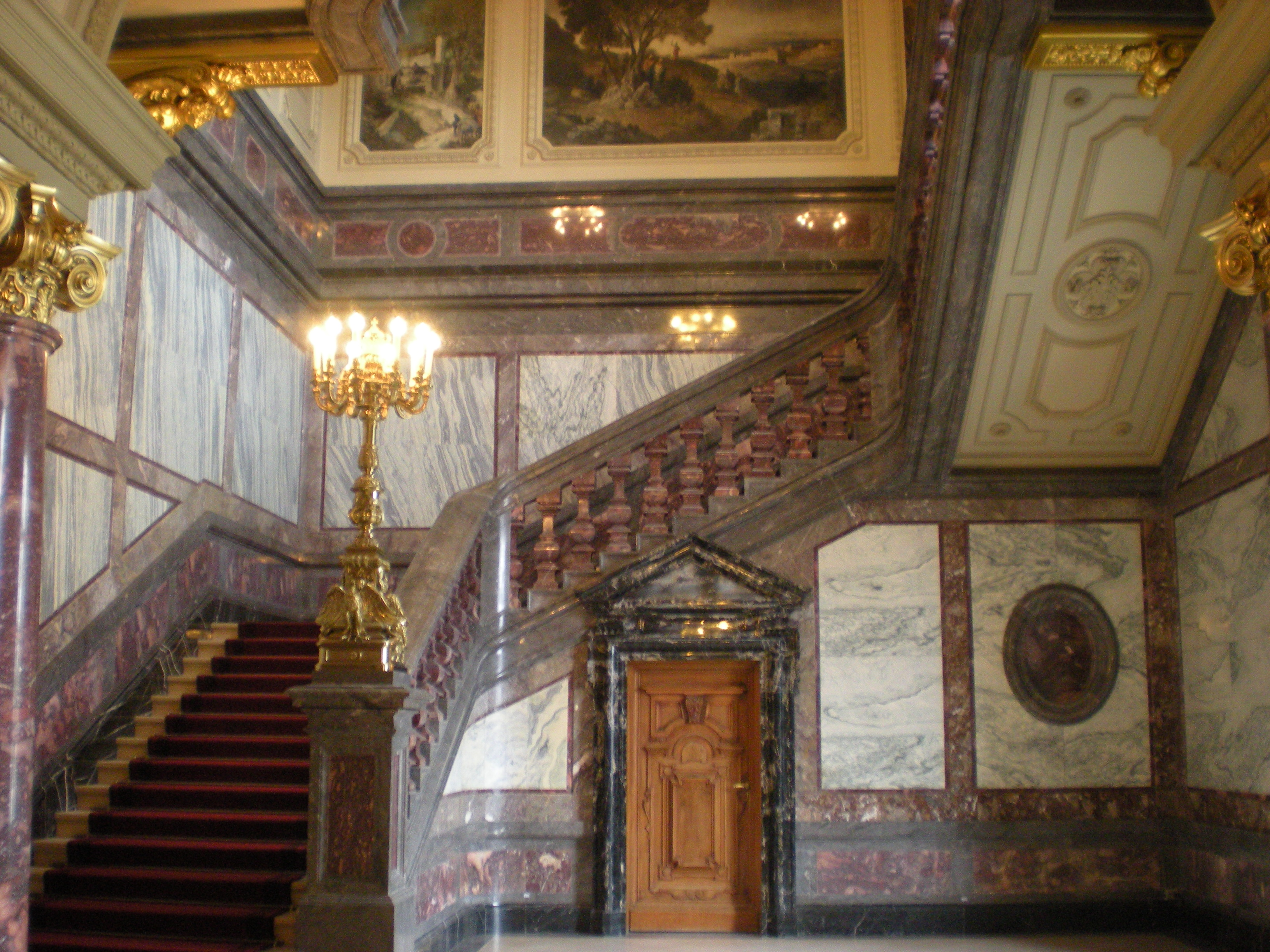 "Imperial Staircase" in Berlin Cathedral